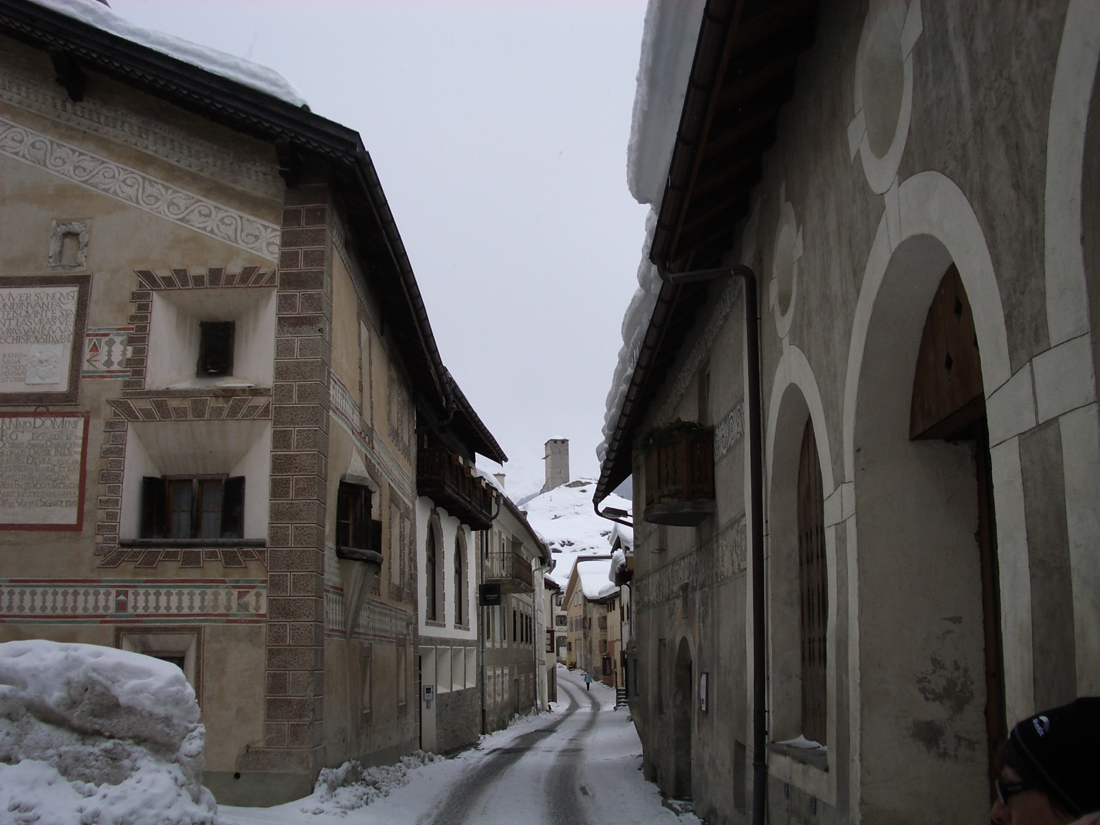 Ardez GR, Switzerland